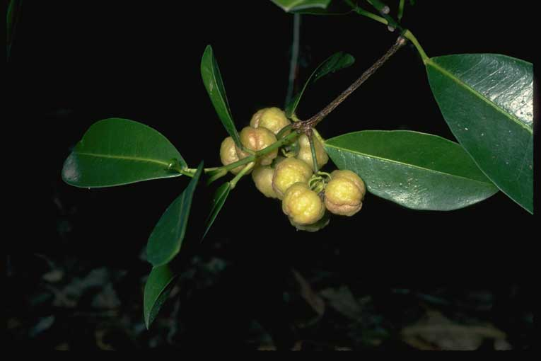 Fruit of Acronychia littoralis in the Australian National Botanic Gardens